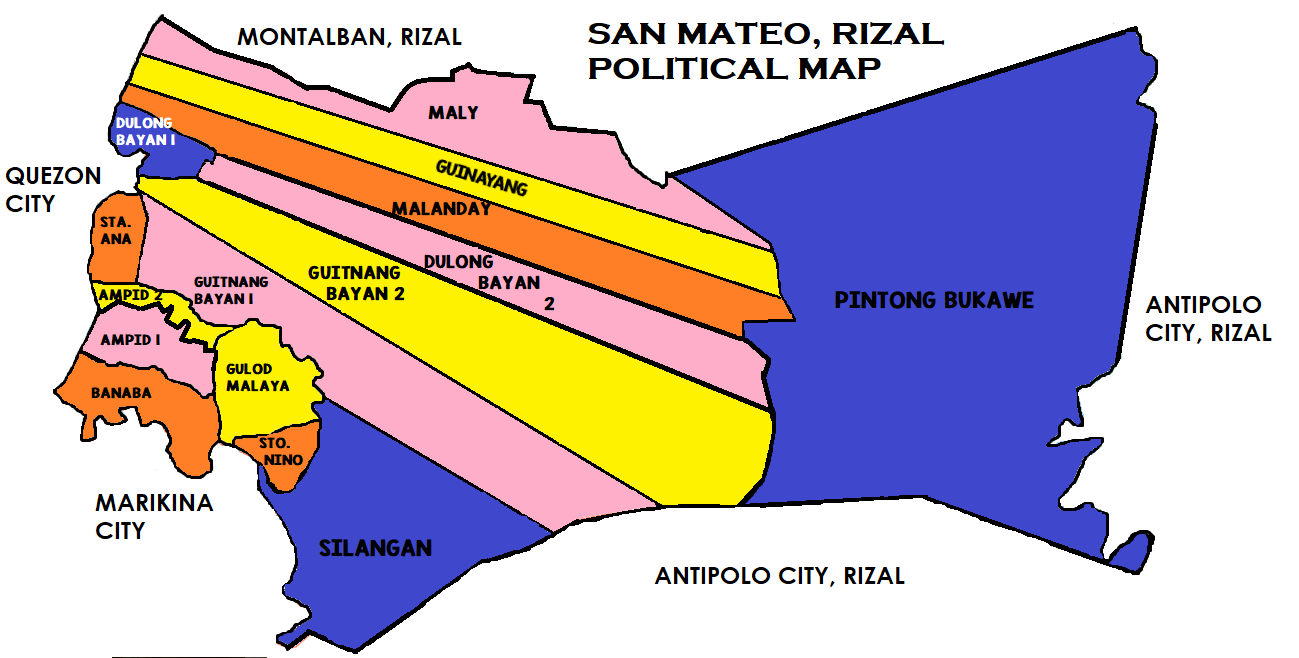 This map clearly shows the 15 barangays in San Mateo Rizal. In this map also, it is also state the adjacent cities/municpalities in it.